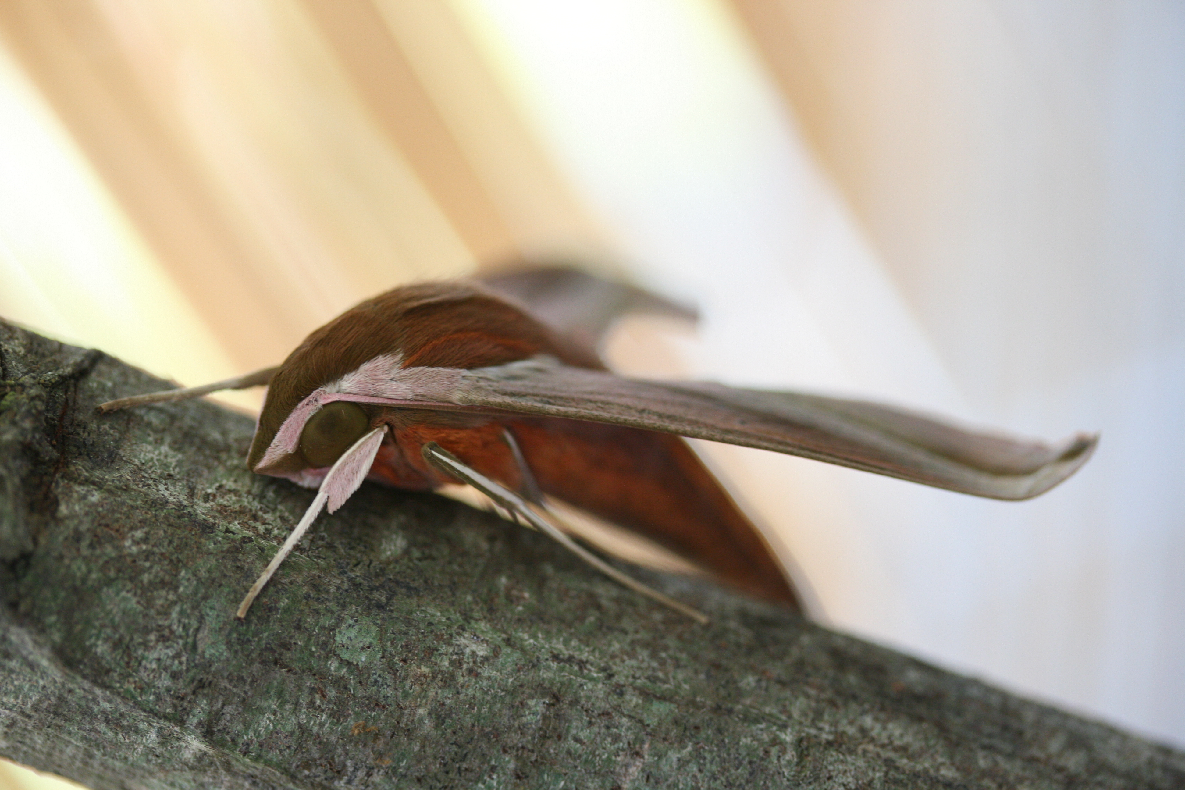 Papillon de Hippotion eson